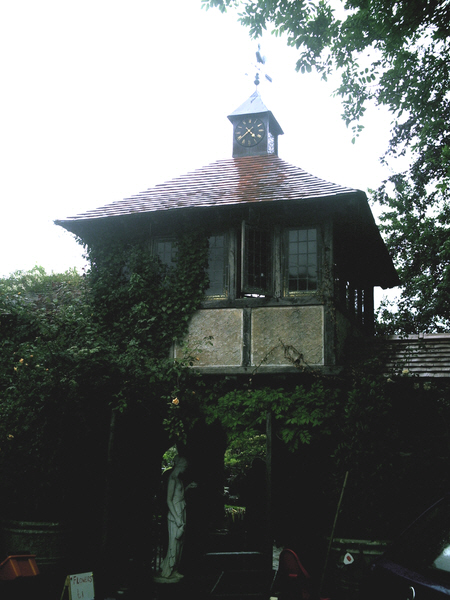 Larch Cottage Garden Centre. Entrance to the garden centre in Melkinthorpe.